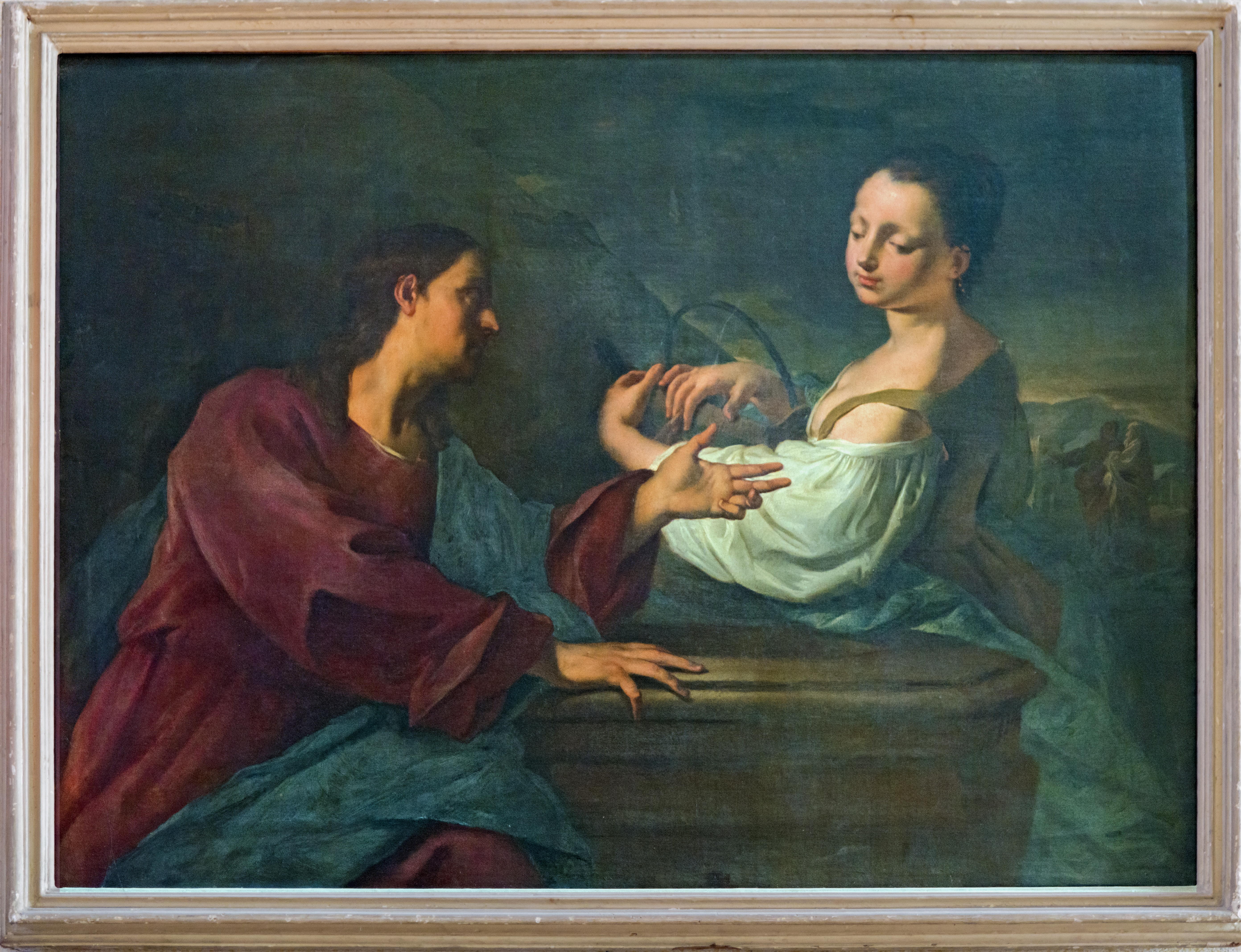 Chapel Badoer-Surian of San Francesco della Vigna (Venice). "Rebecca at the well with Eleazar" by Francesco Polazzo. Oil on canvas, between 1715 st 1720.